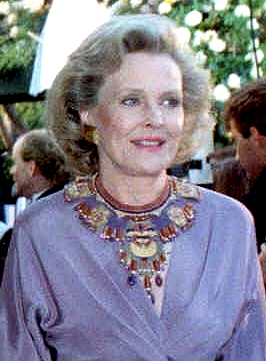 Frances Bergen at the 62nd Academy Awards